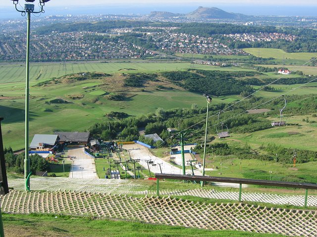 Hillend ski slope. Often quoted as Europe's biggest dry ski slope, this monster on the Pentlands keeps the Royal Edinburgh Infirmary very busy. Looking down the slope and into this steep square from the top of the chairlift.